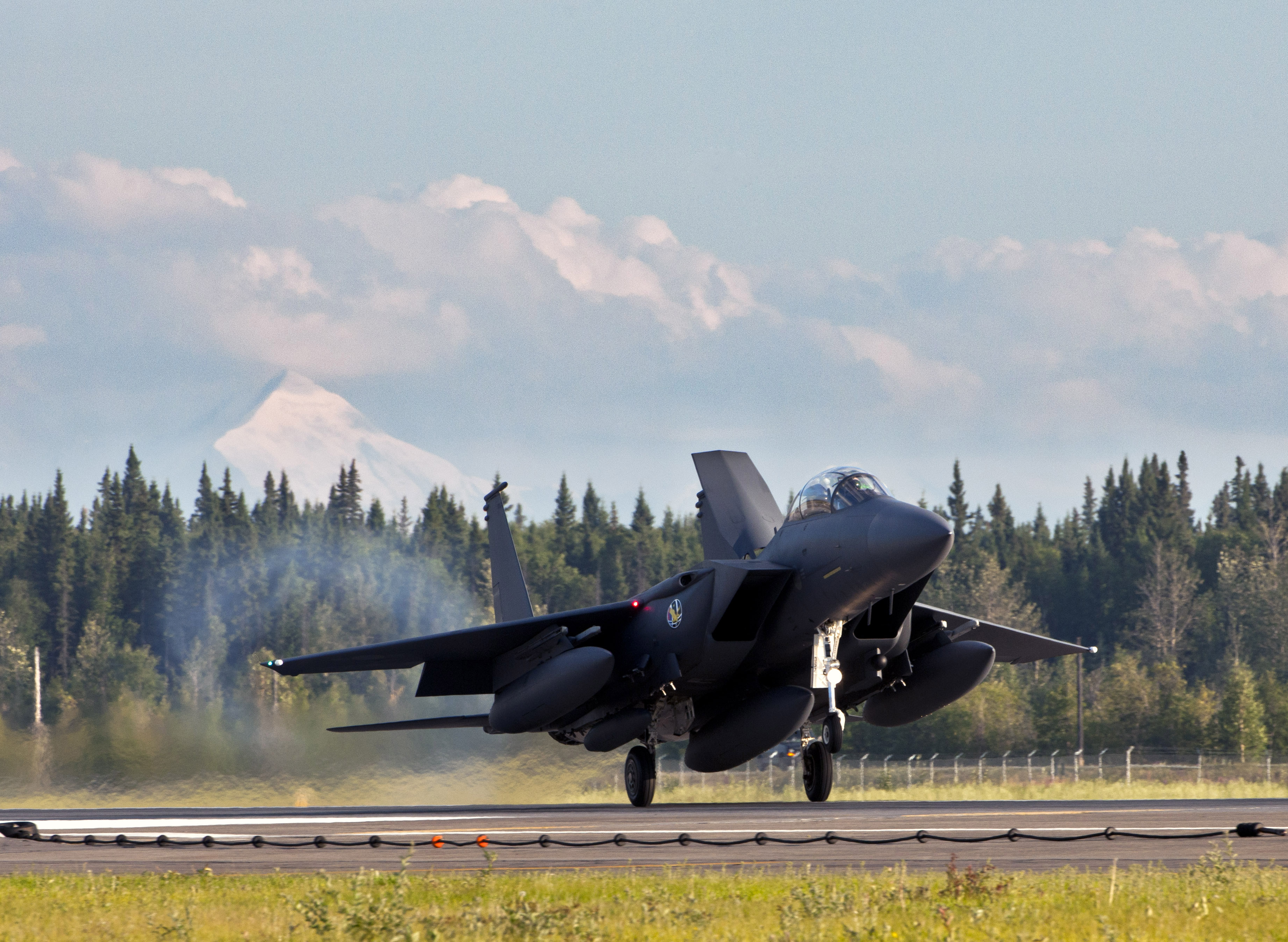 Korean Air Force participates in 'Red Flag Alaska' Training